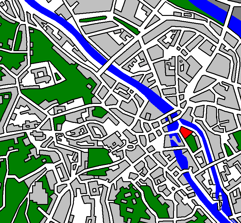 locator map in the German town of Bamberg